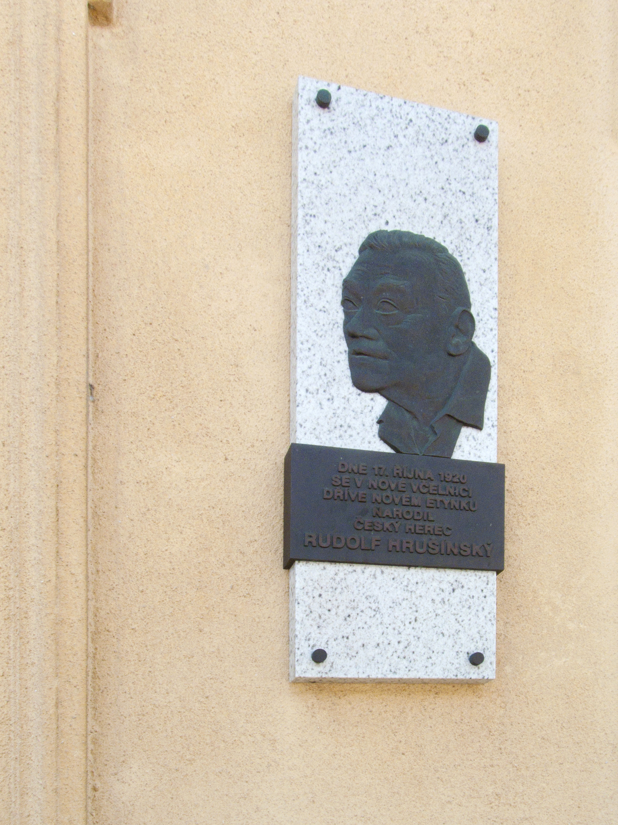 Rudolf Hrušínský memorial plaque on a house in his native town of Nová Včelnice, Jindřichův Hradec District, Czech Republic